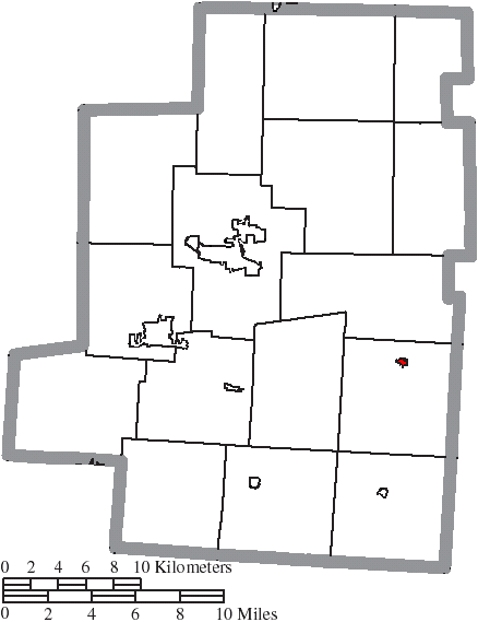 Map of the municipal and township boundaries of Morrow County, Ohio, United States, as of the 2000 census, with the location of the village of Chesterville highlighted. Township borders are shown only in unincorporated areas in order to differentiate incorporated and unincorporated areas more clearly.